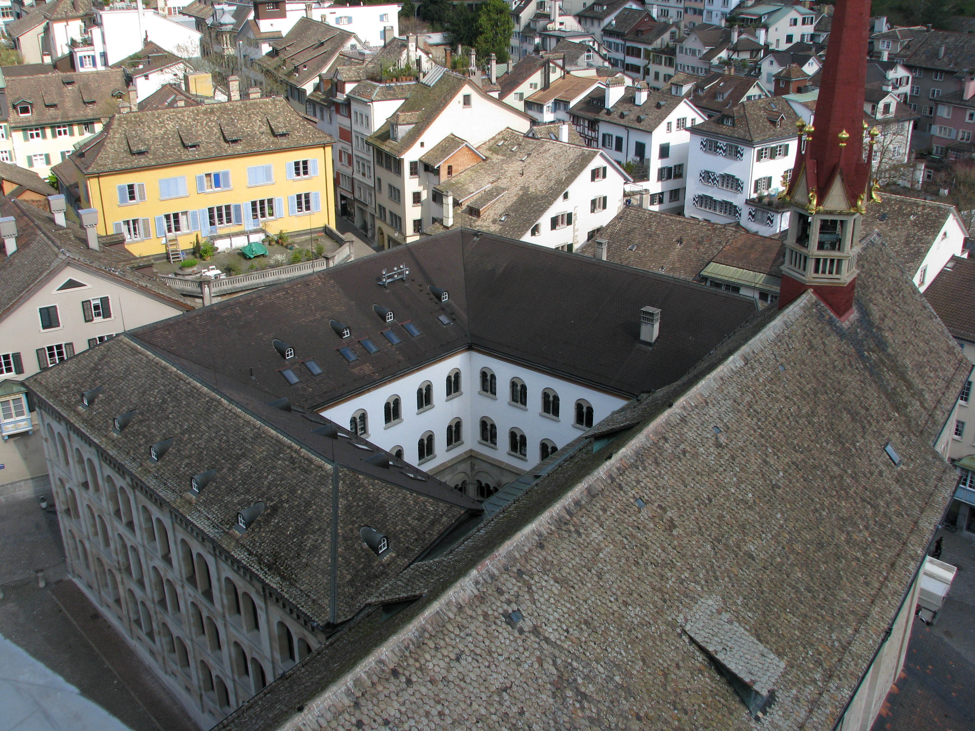 Grossmünster respectively Theologisches Seminar, University of Zurich, in Zürich (Switzerland) as seen from Grossmünster's Karlsturm